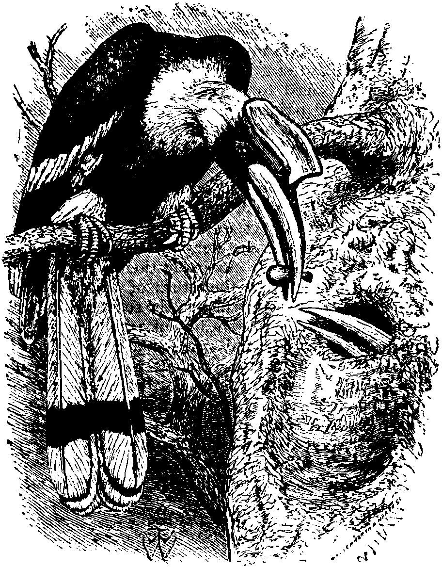 Drawing of two great Indian hornbills (Buceros bicornis). One is completely visible (the male) and with its bill is reaching a fig to its mate through a small opening in a tree out of which the mate's bill is partially visible.